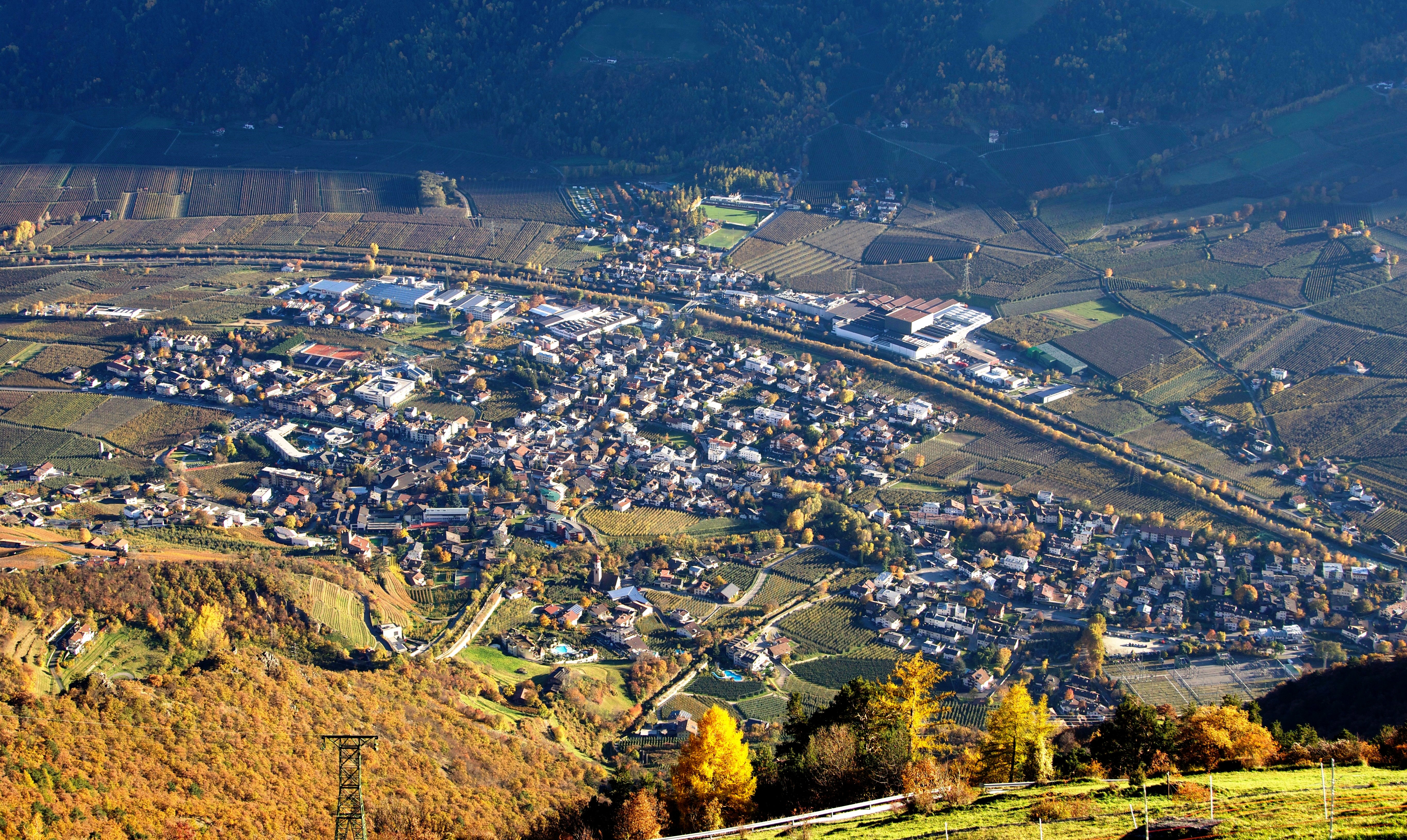 Naturns (Italian Naturno) village view from Sonnenberg